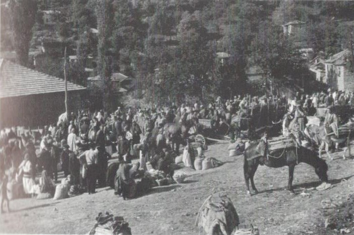 Market day in Labunishta, Macedonia